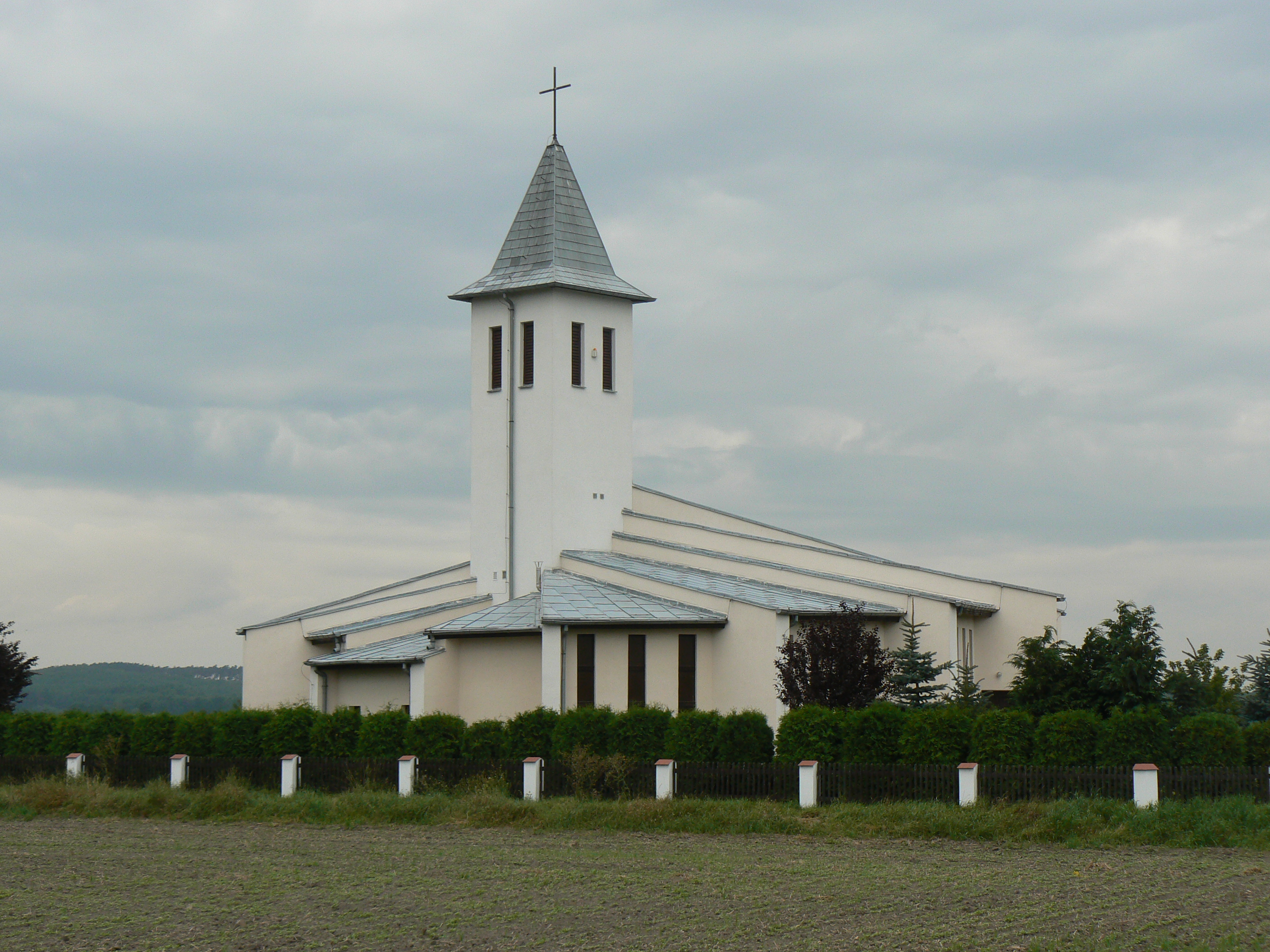 Church in Podmokle Wielkie, a village in Poland, Lubusz Voivodeship, Zielona Góra County, Gmina Babimost. Situated on the street to the neighboring place Podmokle Małe.